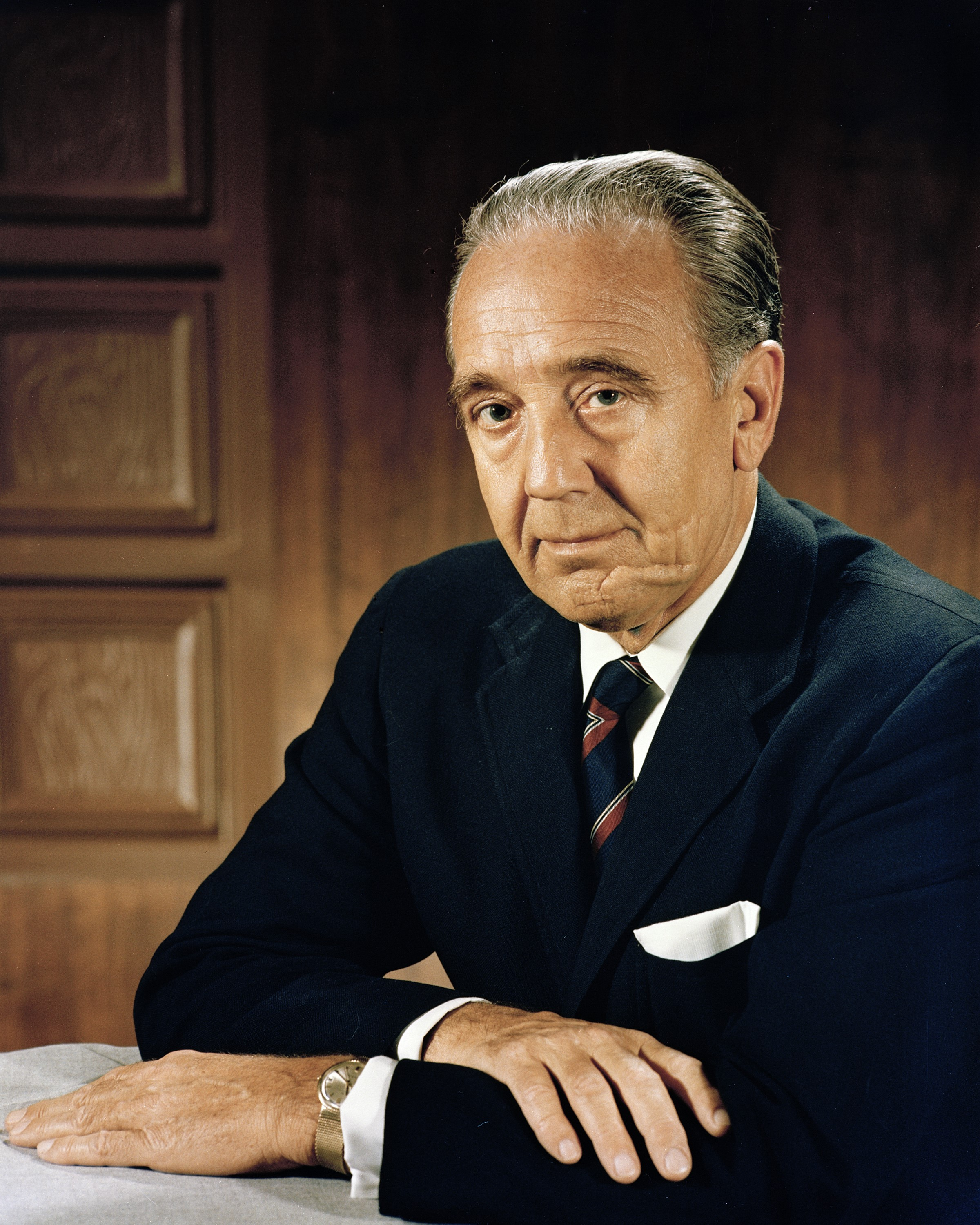 Official portrait of Dr. Kurt H. Debus, Director of Kennedy Space Center from 1962 to 1974